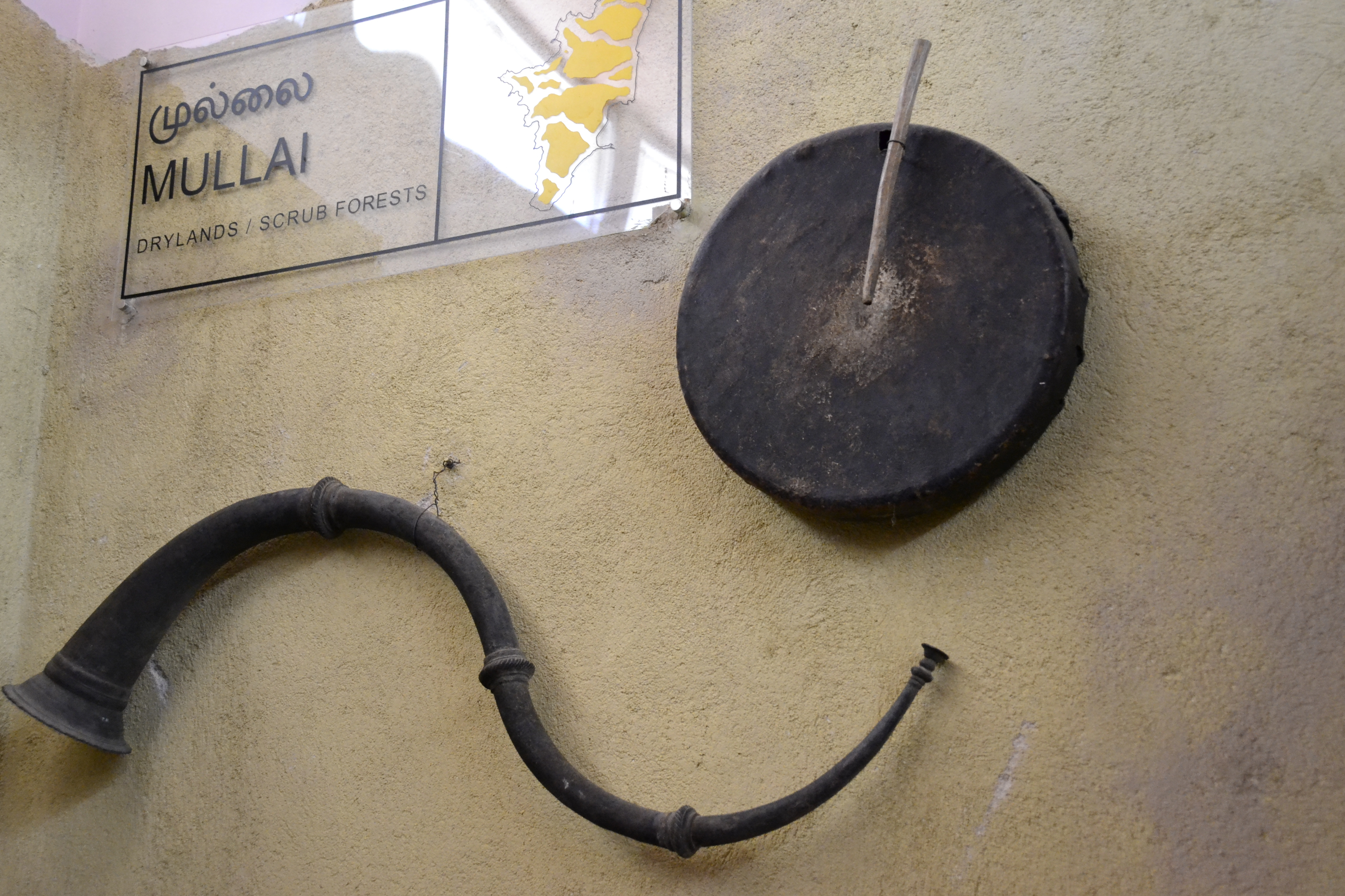 thappattai, thaarai used in Mullai regions as musical instruments.